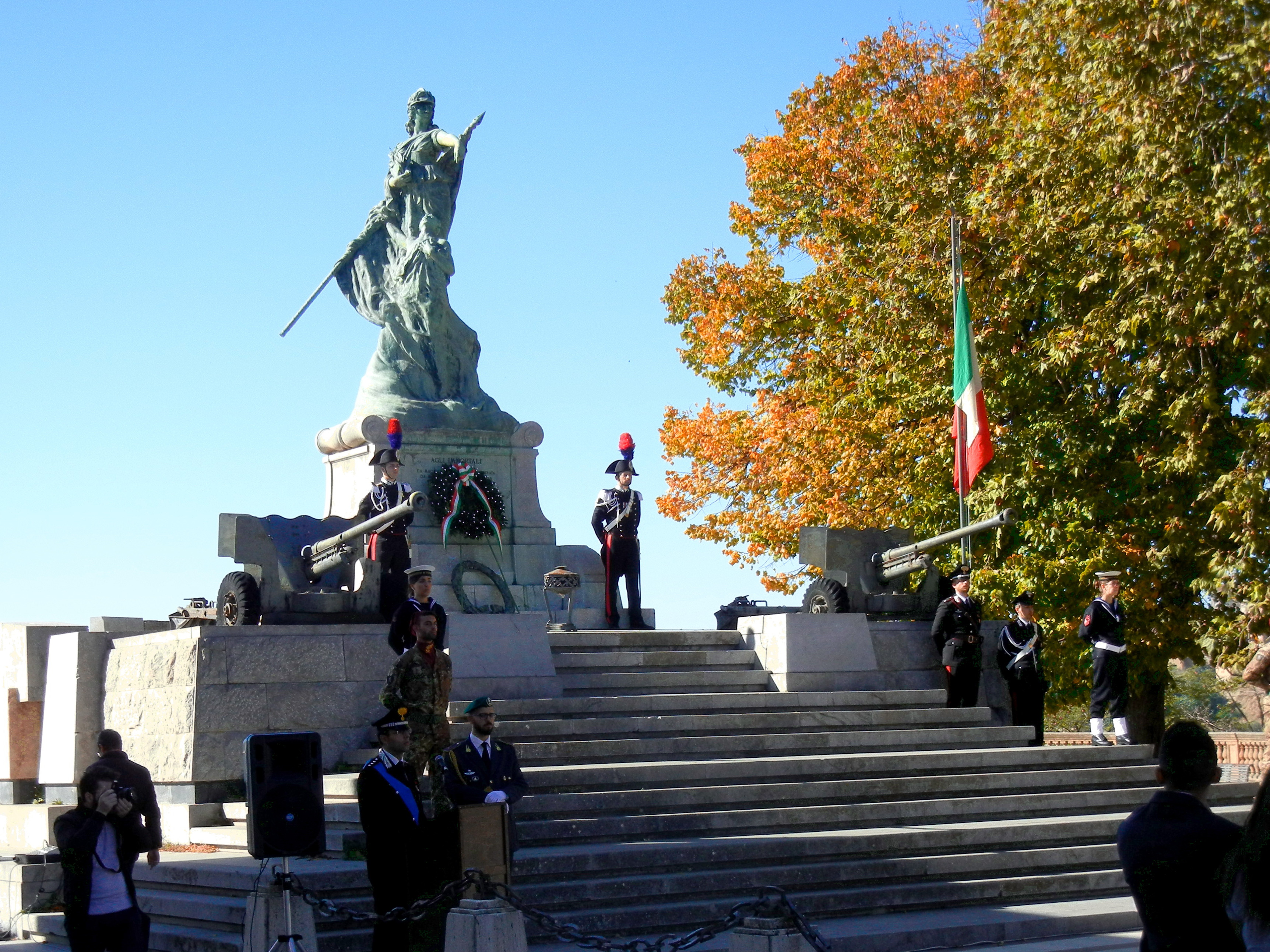 Monument to the Fallen of Great War in Viale Regina Margherita, Caltanissetta, Italy, during the commemoration of the end of the war, November 4, 2017.